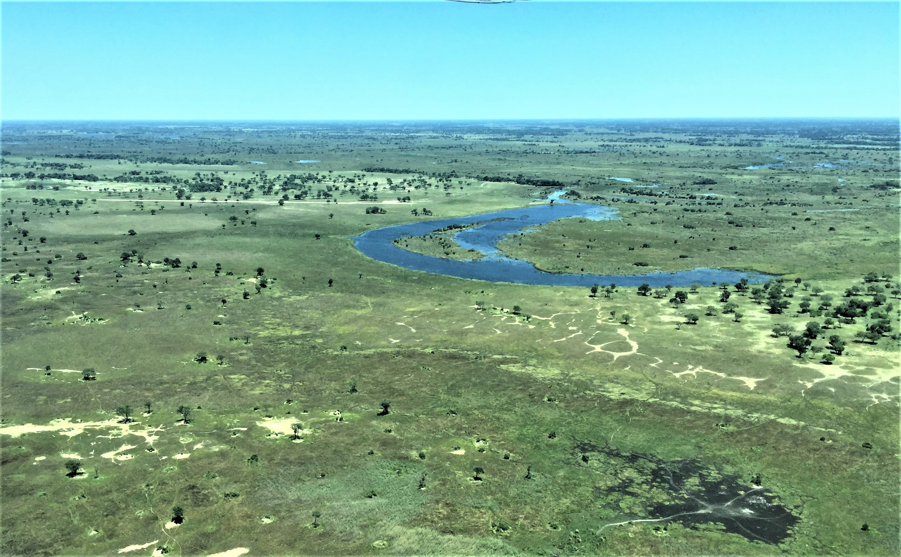 Aerial view of Shinde Lagoon in the North of the Okavango Delta. Shinde airstrip and Shinde camp in the wooded area at the far end of the lagoon in the upper left of the picture.